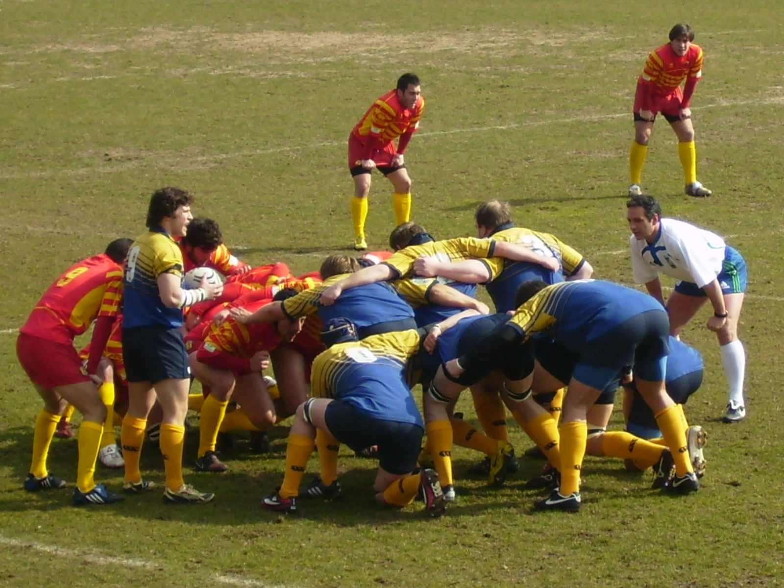 Catalonia - Sweden rugby union match, at Baldiri Aleu stadium in Sant Boi de Llobregat, 14 Feb 2010.